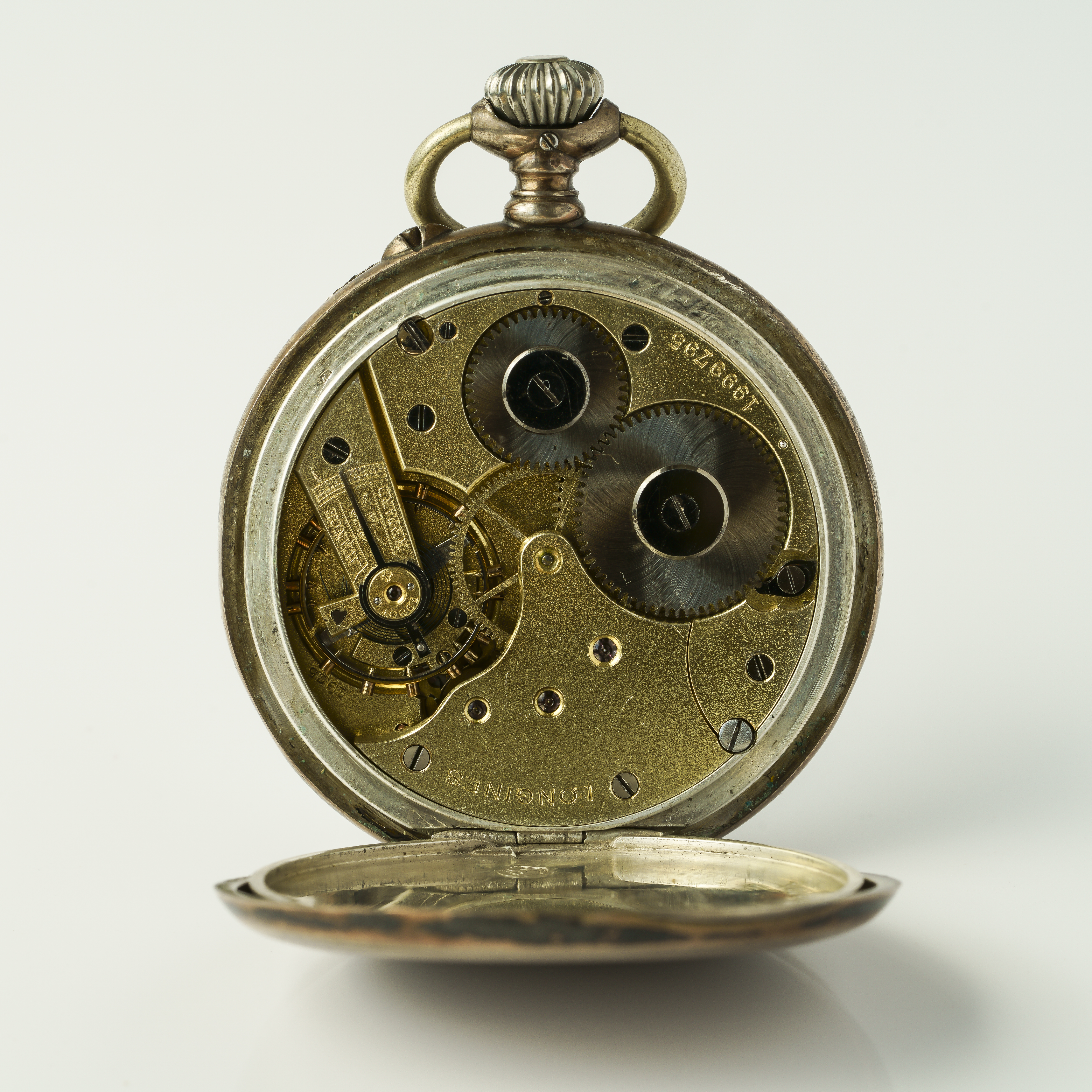 Longines manual winding pocket watch, model 4 Grand Prix, silver casing, manufactured approx. 1900. Rear view, wear marks, clockwork visible. Enhanced resolution.